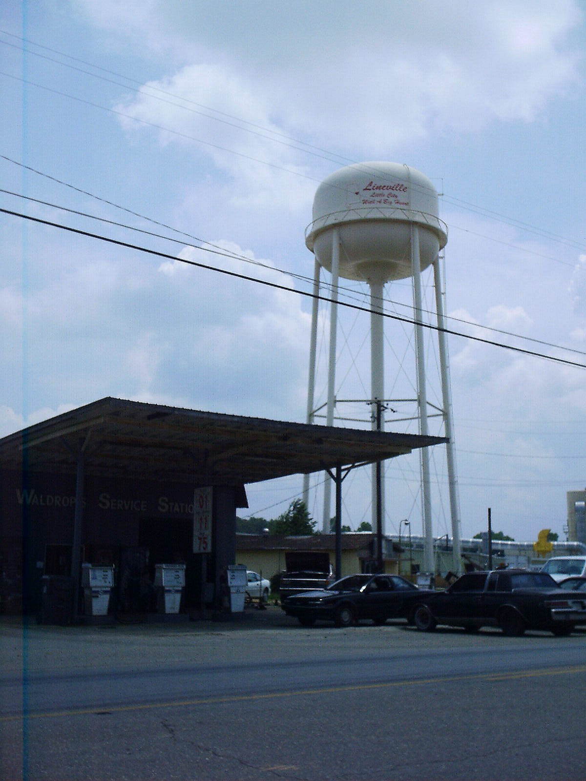 Lineville Alabama New Water Tower